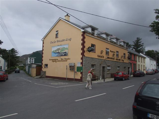 Hegarty's Bar in Carrick, with the turn for Teelin and Slieve League to the left Hegarty's bar (officially known as Ostan Slieve League) is a popular stop off for people travelling to/from Slieve League.